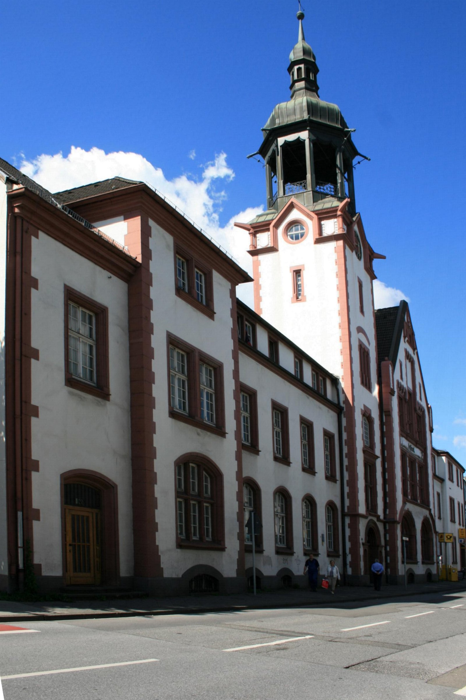 Cultural heritage monument No. O 008 in Mönchengladbach